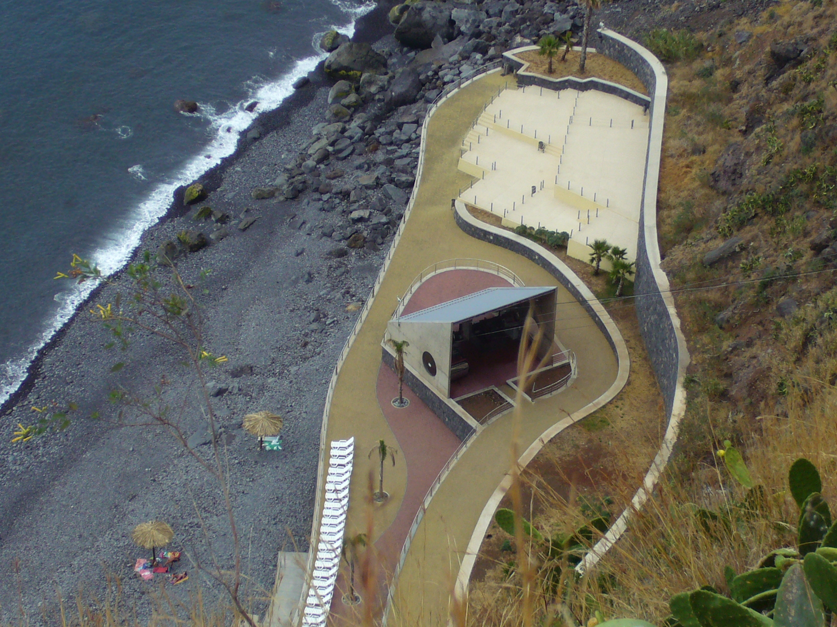 Lower station of the cableway near Garajau - Madeira